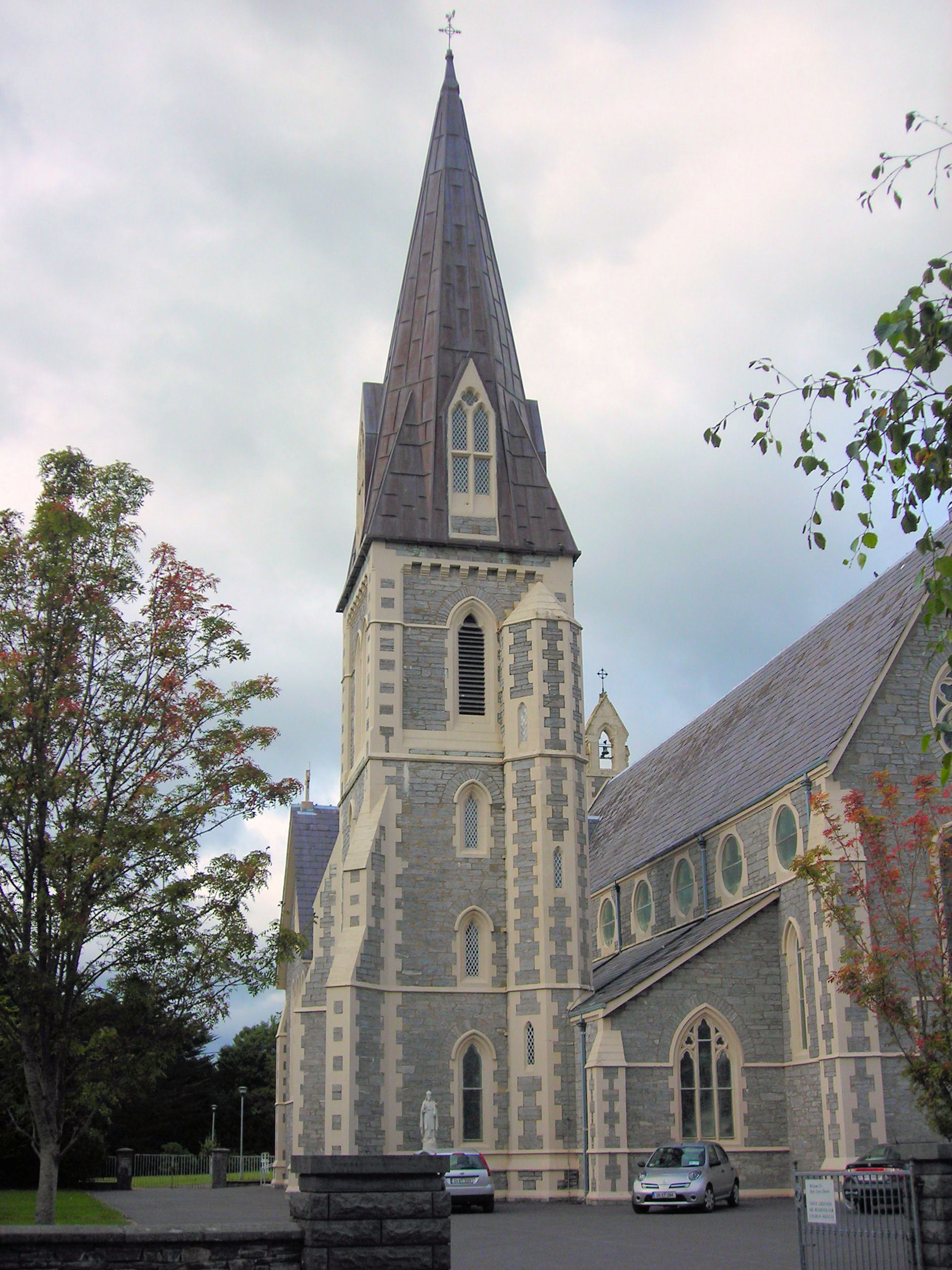 The Holy Cross Roman Catholic Church in Kenmare, Ireland.